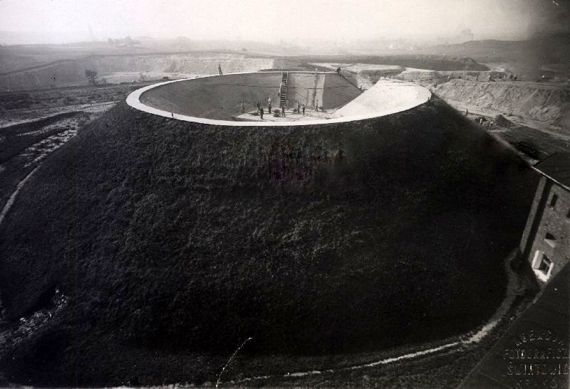 Krak Mound